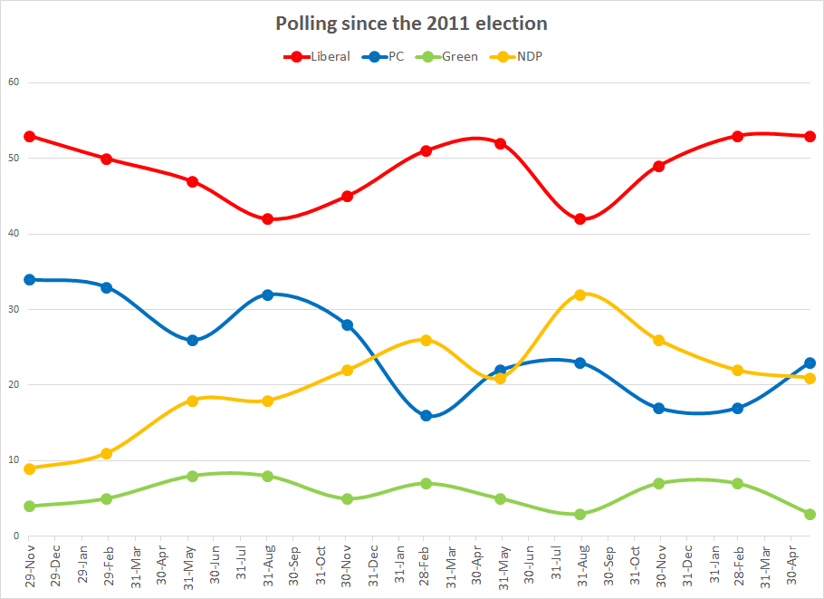 Voting intentions, according to opinion polls, in the Canadian province of Prince Edward Island since it's 2011 general election.